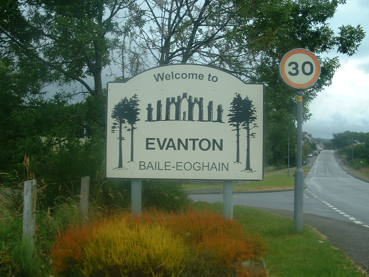 Uploader's own.